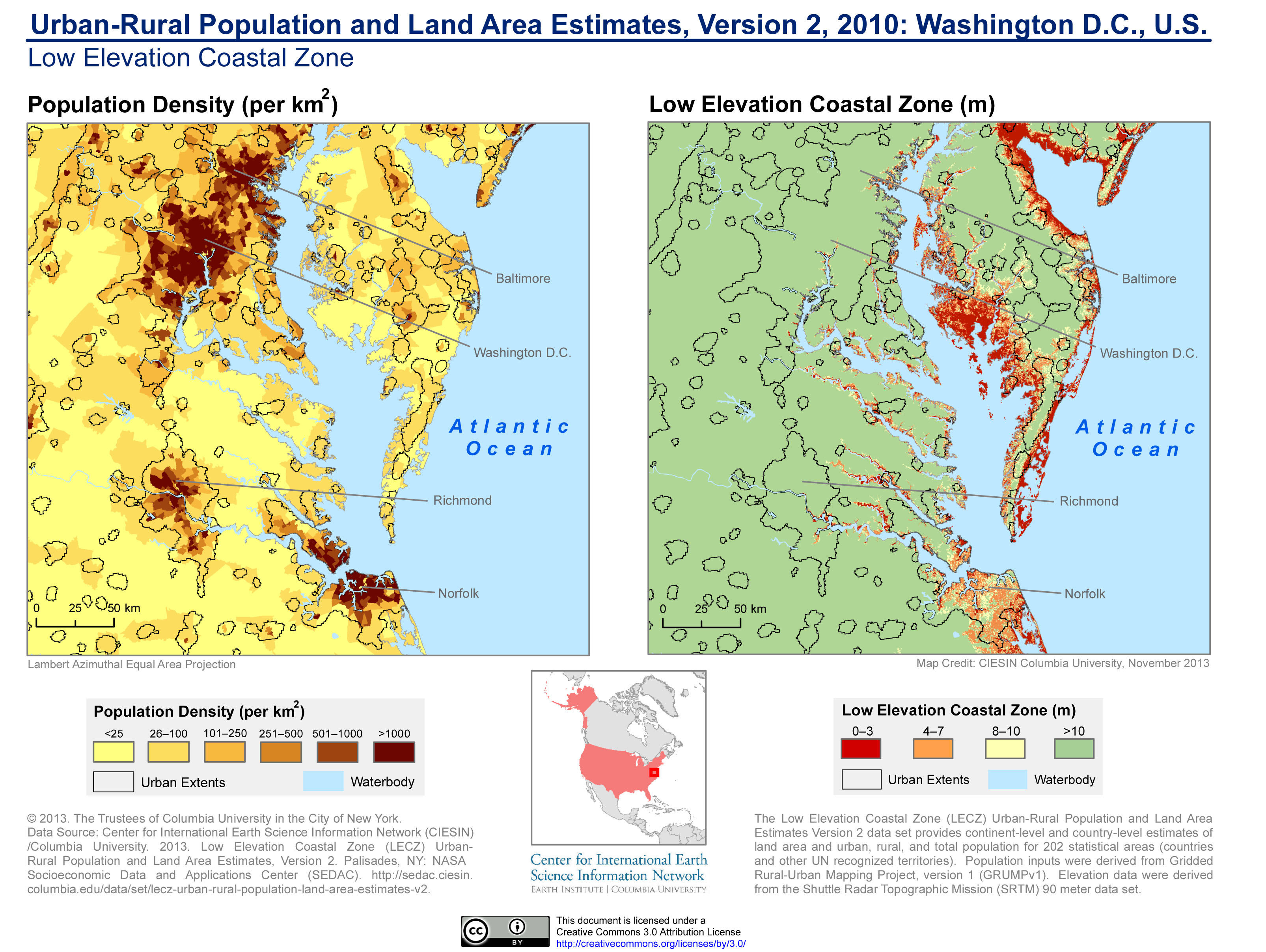 The Low Elevation Coastal Zone (LECZ) Urban-Rural Population and Land Area Estimates Version 2 dataset provides continent-level and country-level estimates of land area and urban, rural, and total population for 202 statistical areas (countries and other UN recognized territories). Population inputs were derived from Gridded Rural-Urban Mapping Project, Version 1 (GRUMPv1). Elevation data were derived from the Shuttle Radar Topographic Mission (SRTM) 90 meter dataset.